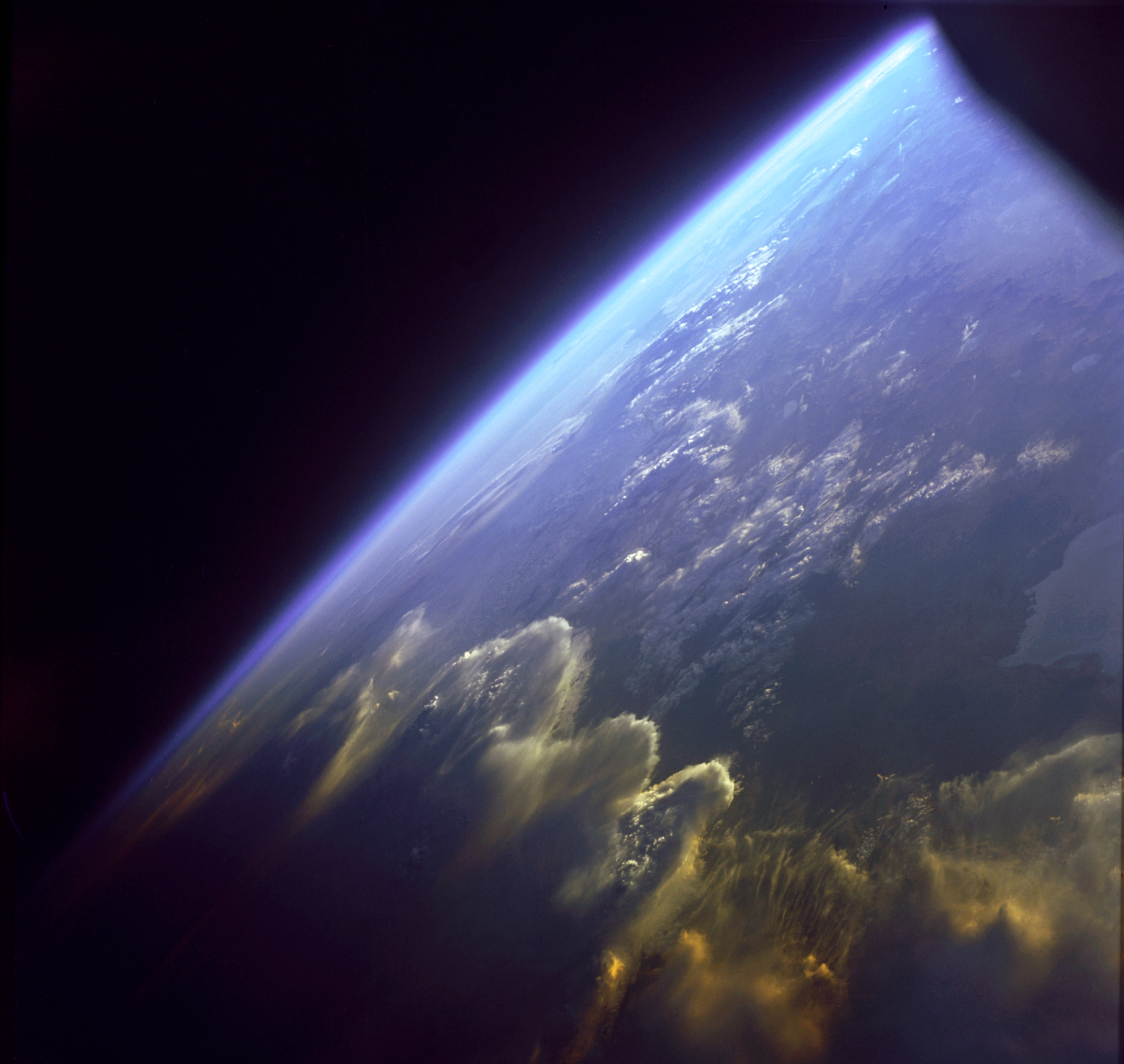 Waves of clouds along the east flanks of the Andes Mountains cast off an orange glow by the low angle of the sun in the West. The dark area to the left is the Earth's terminator. This view was photographed by astronaut Frank Borman and James A. Lovell during the Gemini 7 mission, looking South from Northern Bolivia across the Andes. The Intermontane Salt Basins are visible in the background.